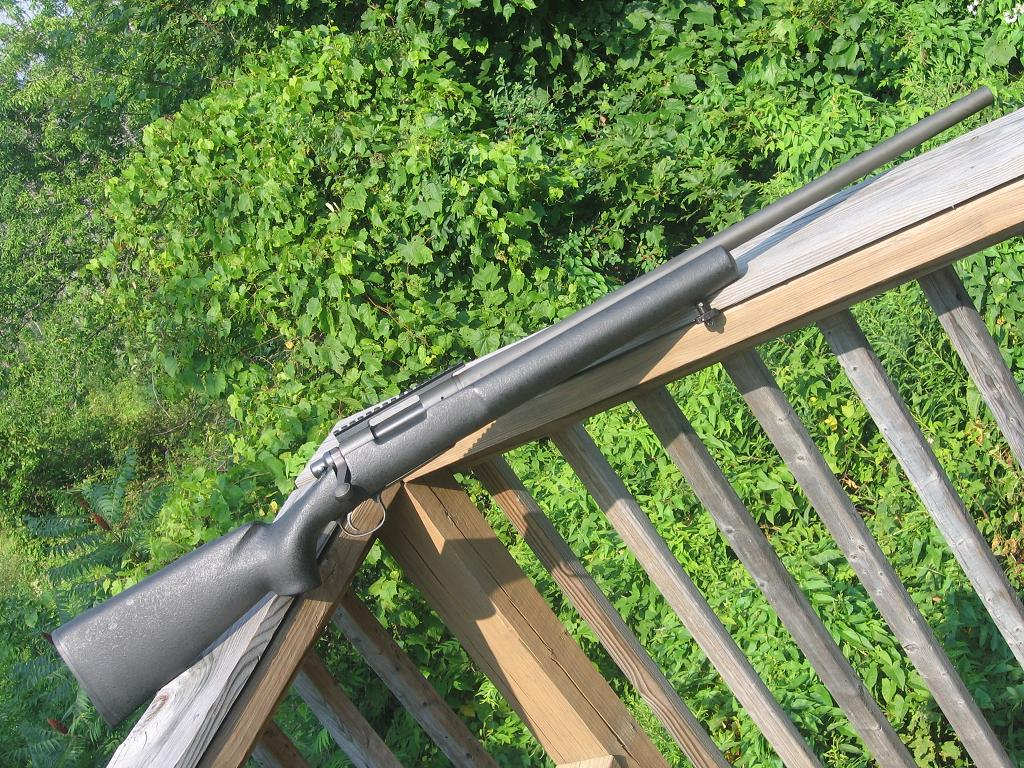 .223 Remington 700PSS